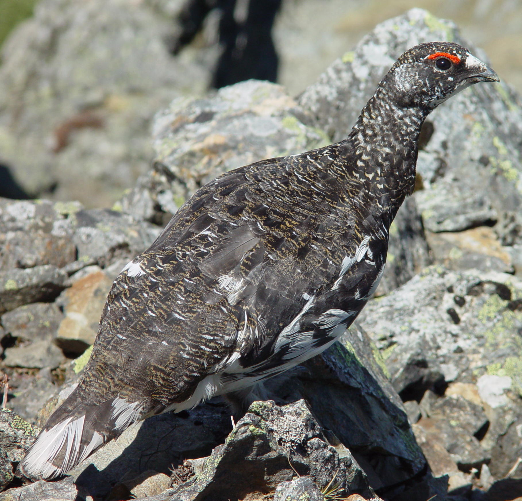 Rock Ptarmigan (Lagopus muta japonica, Lagopus mutus japonicus), male of summer plumage in Mount Ogōchi, Japan.